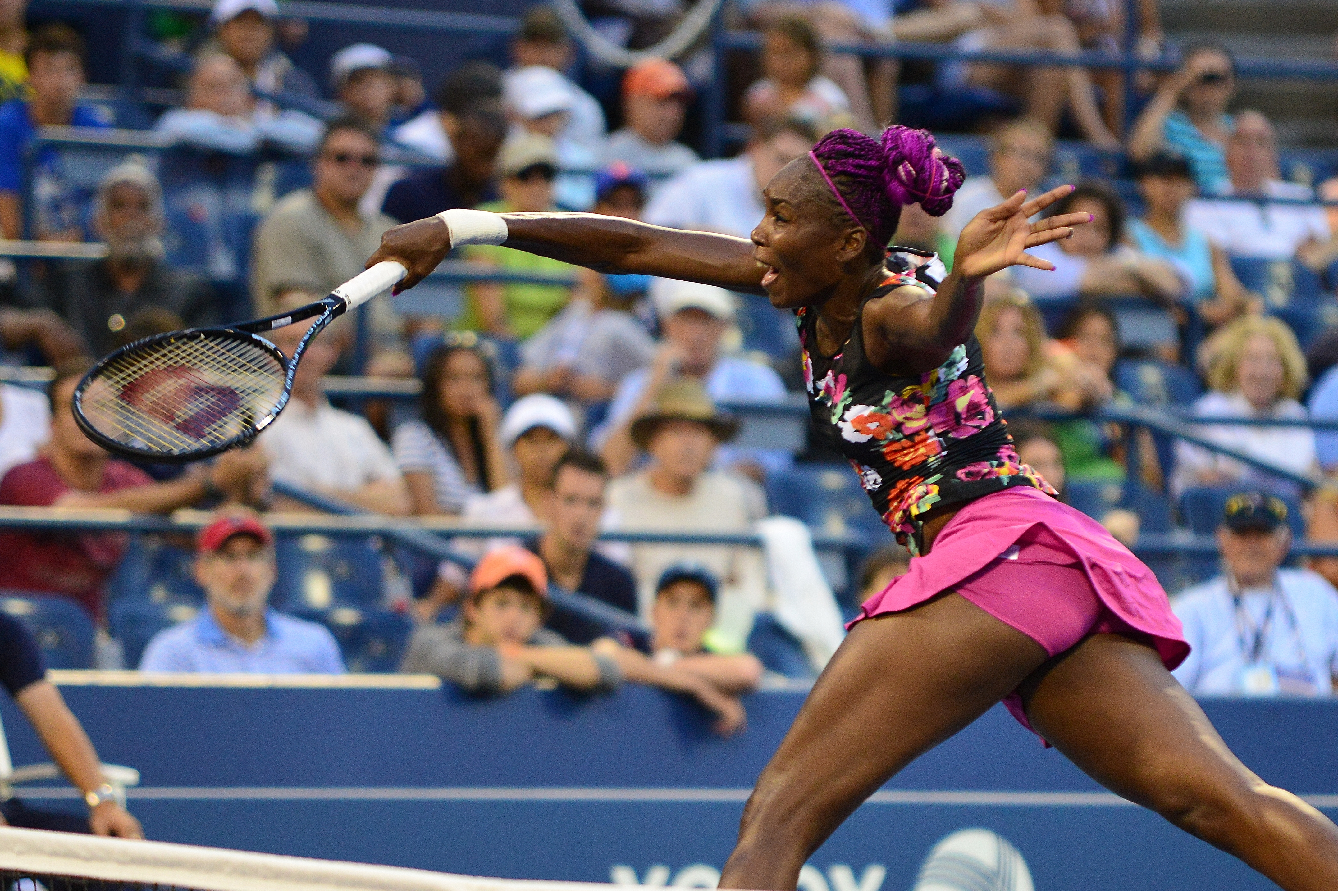 1st round doubles action from the Women's draw at the 2013 US Open. Serena and Venus Williams defeated Silvia Soler-Espinosa and Carla Suarez Navarro; 6-7(5), 6-0, 6-3